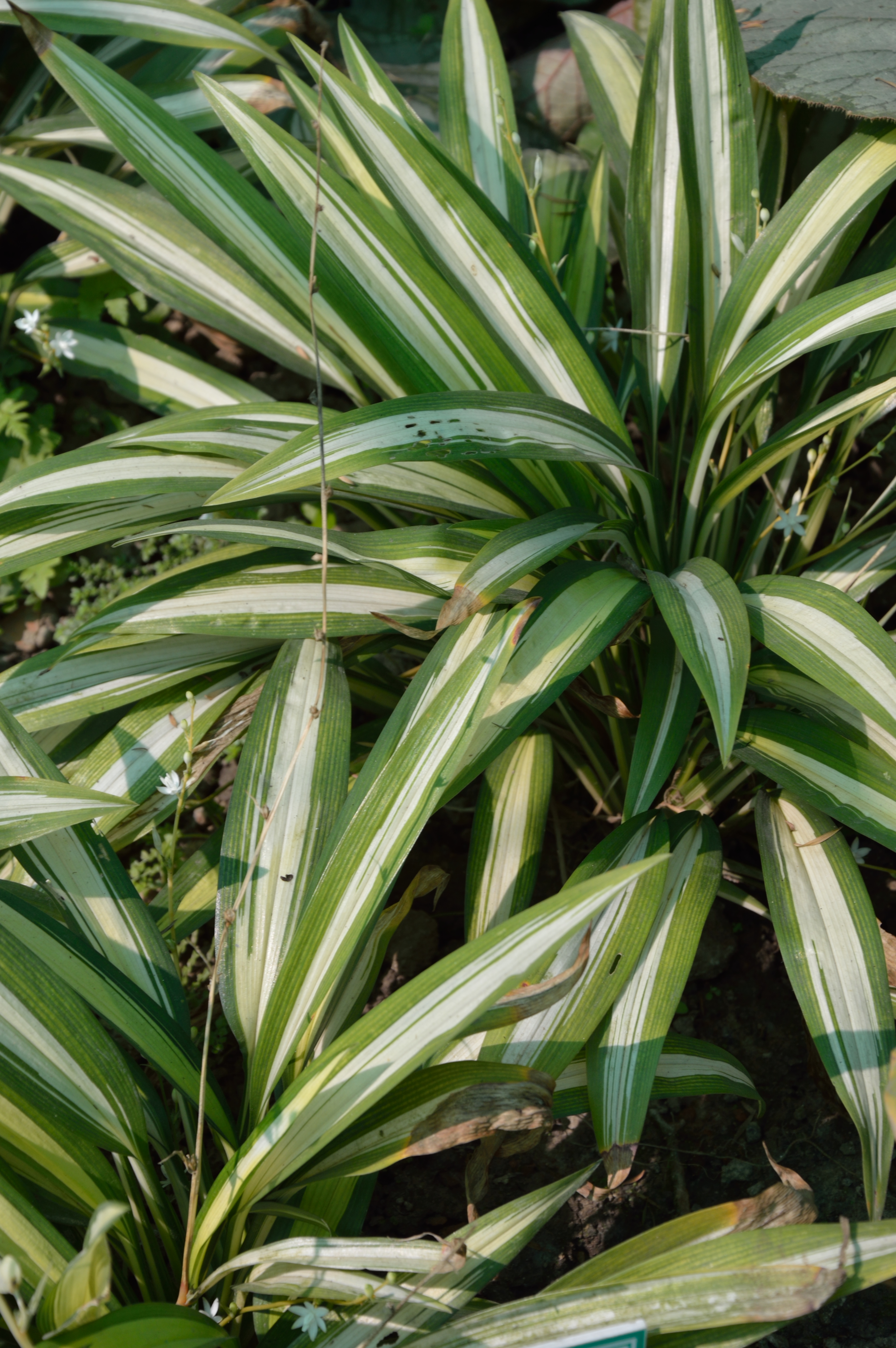 The 186th Annual Flower Show was held at the garden of the Agri-Horticultural Society of India, Alipore, Kolkata, from 7 to 10 February 2013. The exhibition comprises Bonsai, Cacti, Crotons, Dahlias, Fruits, Herbal plants, Palms, Roses, Succulents, Vegetables and perennial flowering plants in pots and uprooted.